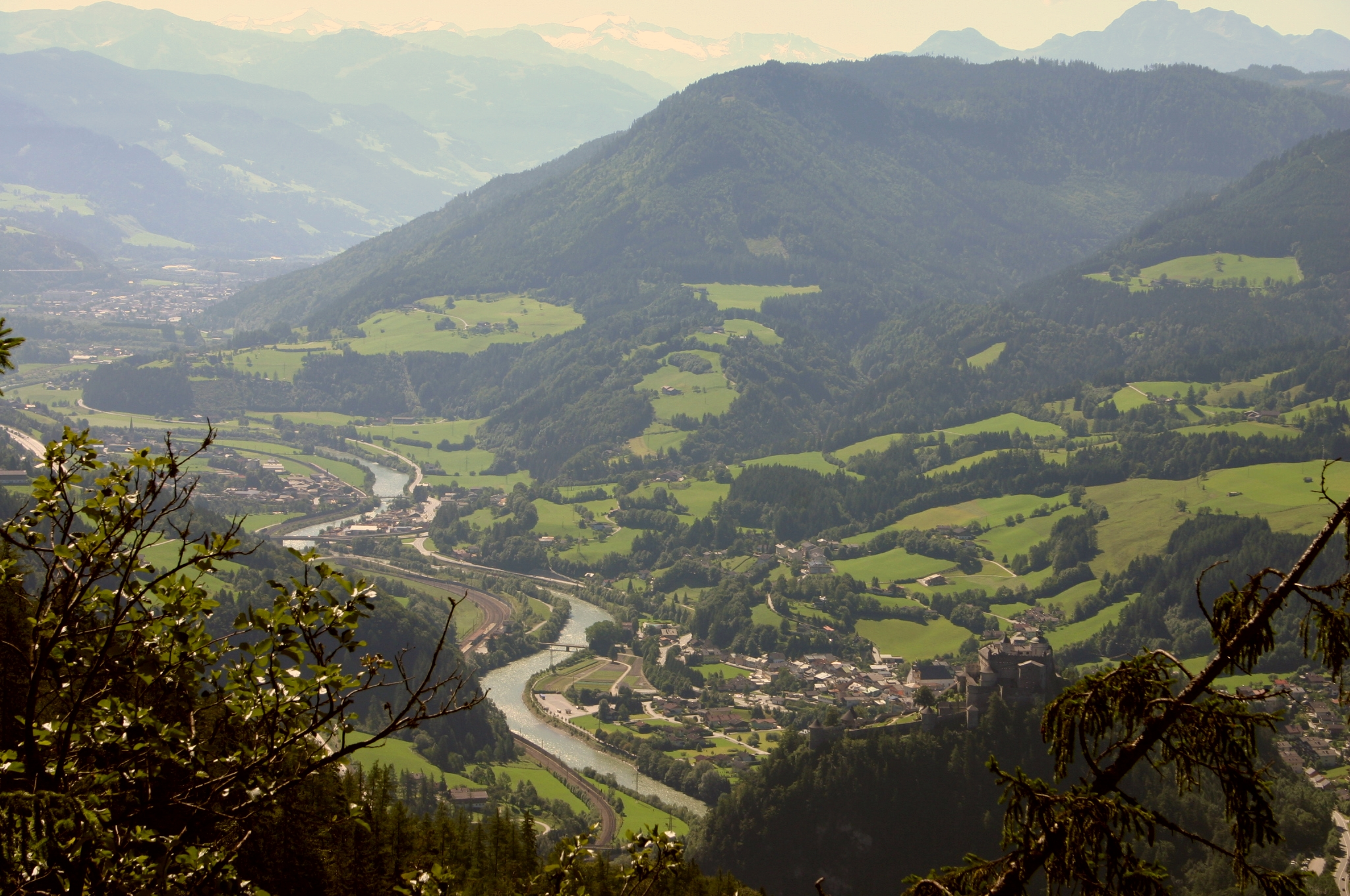 River Salzach near Werfen